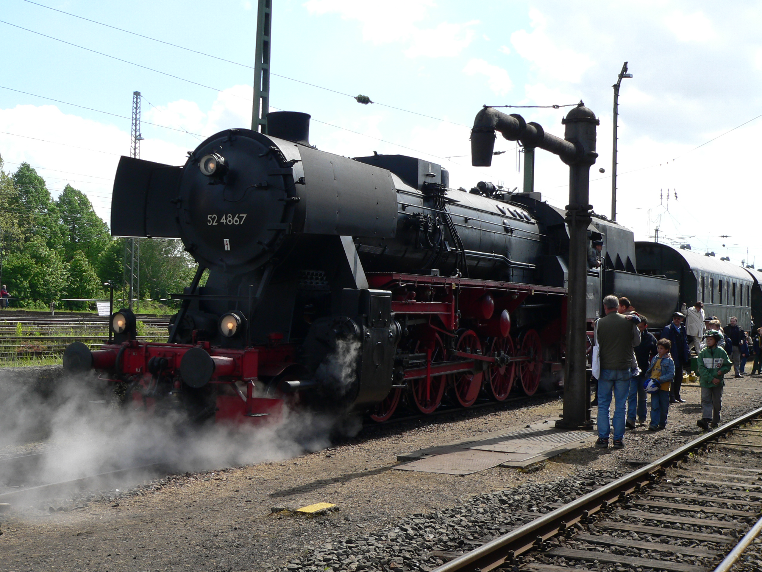 Steam locomotive german class 52 road number 52 4867 at Darmstadt-Kranichstein, Germany.